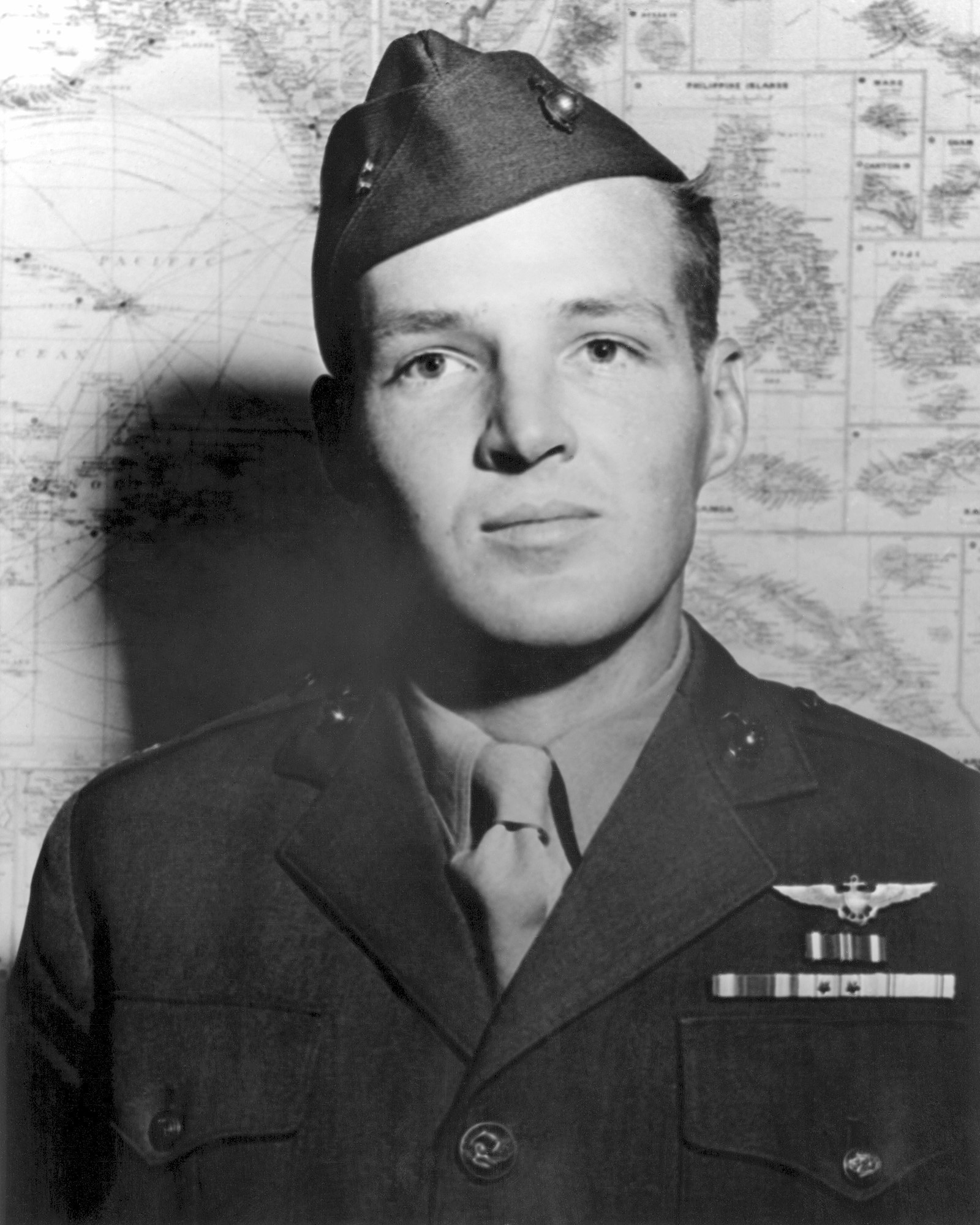 Official Portrait of US Marine Corps Major Hugh M. Elwood, a flying ace credited with 5 kills.